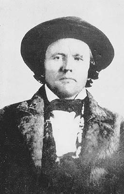 Early photo, possibly the first, of Kit Carson